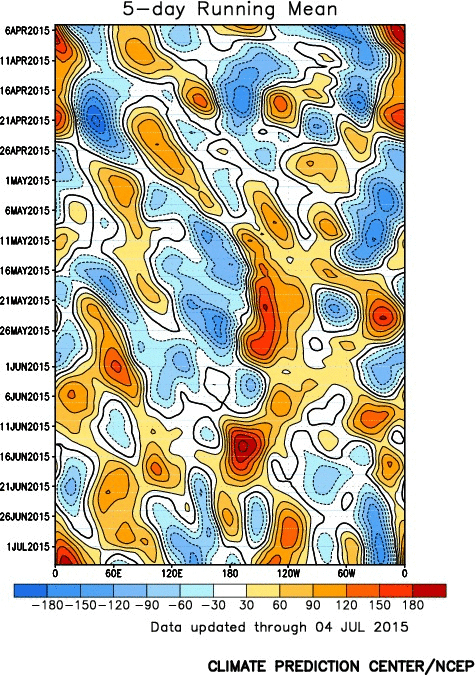 Five day running mean time longitude section of the 500-hPa height anomalies (45°N-60°N) calculated from daily anomalies. Anomalies are departures from the 1981-2010 base period daily means. (Text after NOAA, 500 hecto Pascals Height Anomalies 45oN-60oN), Illustrates early 2015 blockings; heat waves in India, Pakistan, U.S. West coast and Europe